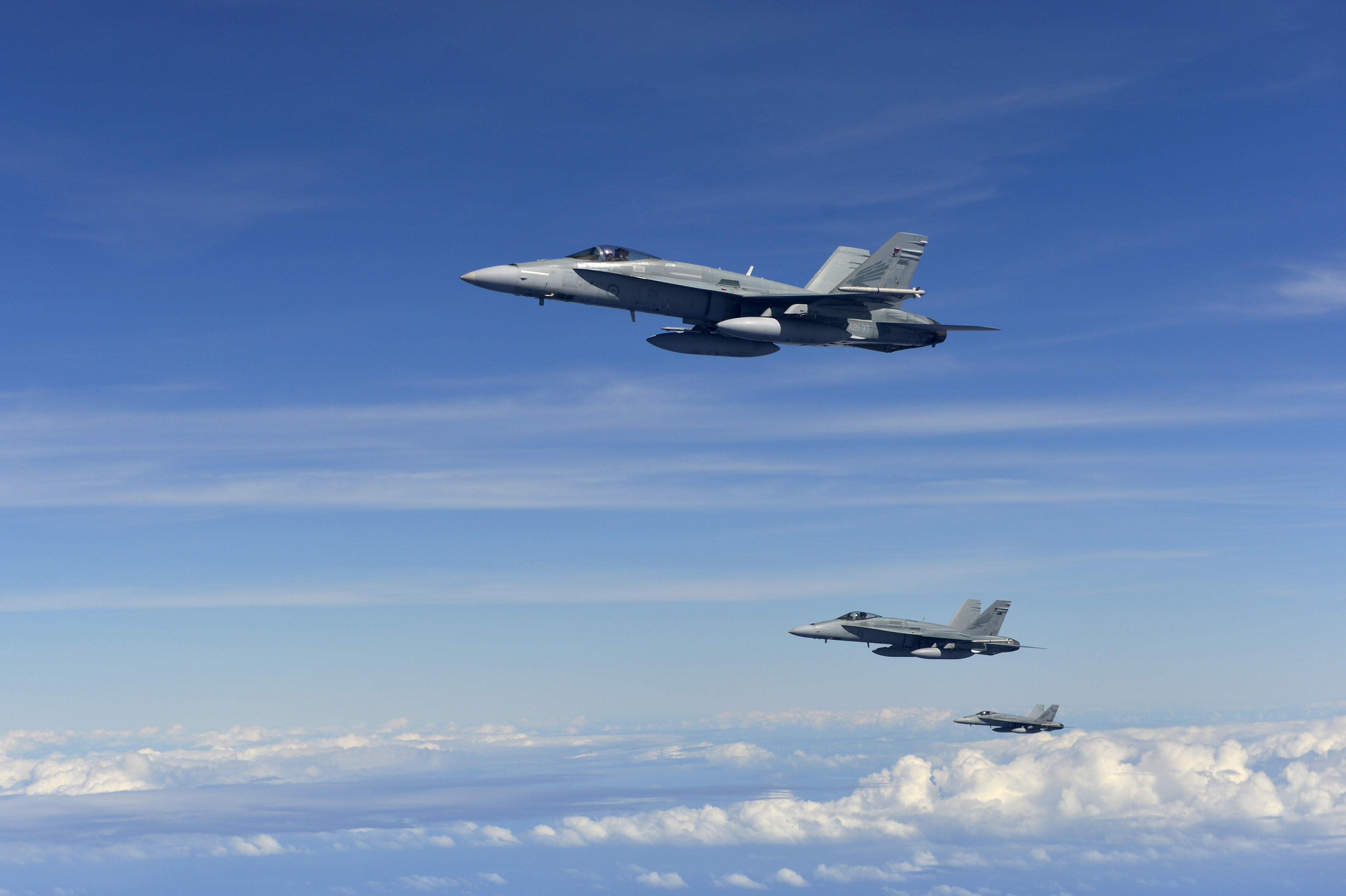 Three Royal Australian Air Force F/A-18 Hornets form up after an air refuel from a KC-30A Multi Role Tanker Transport while participating in Cope North 13 near Anderson Air Force Base, Guam, Feb. 13, 2013. The F/A-18 Hornet is capable of air interception, air combat, close air support of ground troops, and interdiction of enemy supply lines including shipping. Cope North is an annual air combat tactics, humanitarian assistance and disaster relief exercise designed to increase the readiness and interoperability of the U.S. Air Force, Japan Air Self-Defense Force and Royal Australian Air Force..